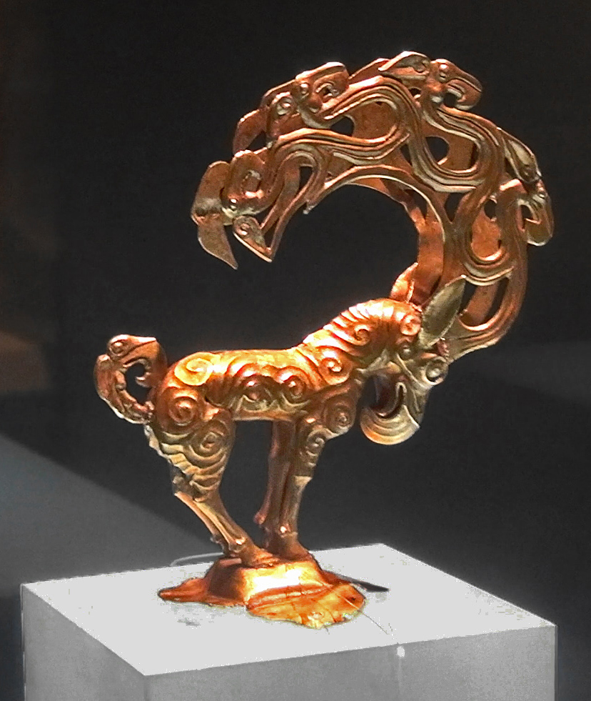 Gold Monster – Han Dynasty (206 B.C. – 220 A.D.)